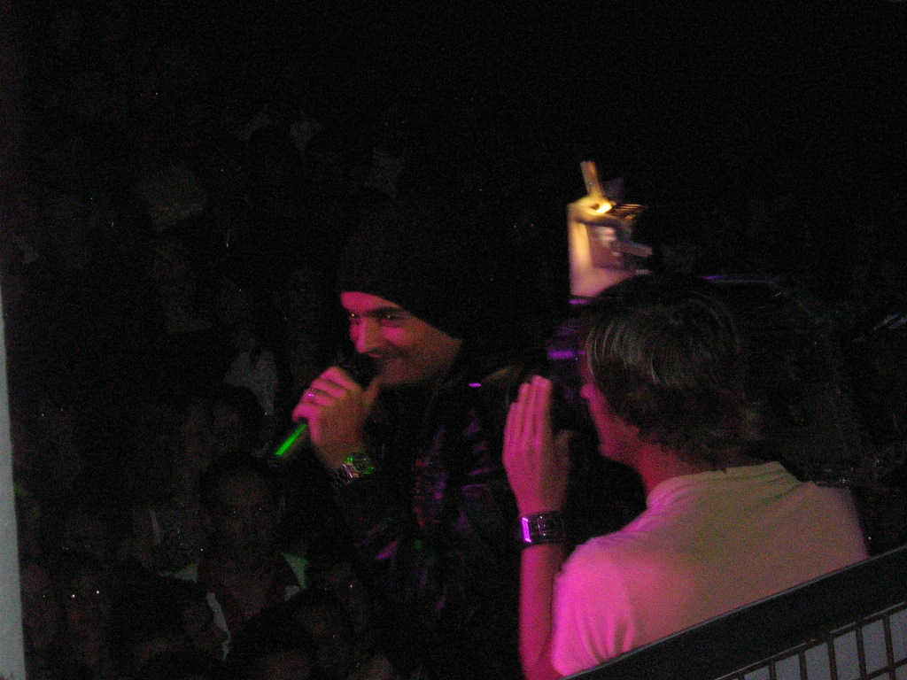 Giovanni Zarrella live